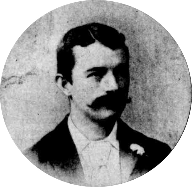 Alfred Tillotson Jones, 1897